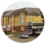 Roundabout at junction of Ryehill Road, Rye Road and Broomfield Road